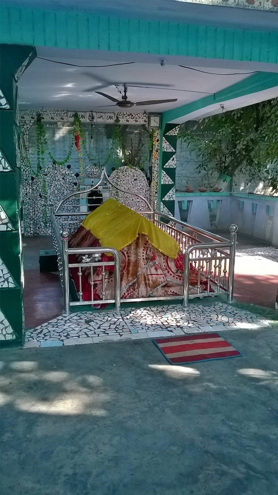 Shrine of Hazrat Maulana Syed Azmal Shah Bahraichi